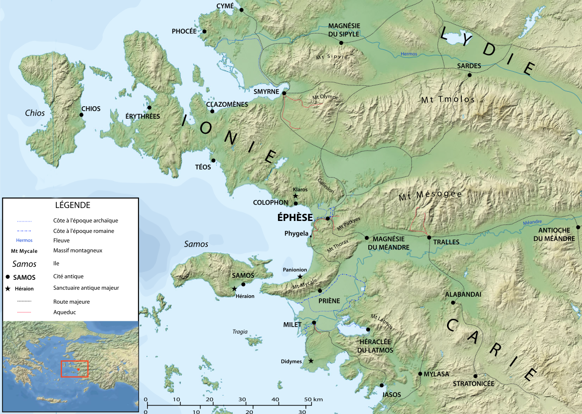 Map of Ephesos region in Antiquity, made after Eric Gaba's map of the Aegean area (Image:Aegean_Sea_map_bathymetry-fr.svg)